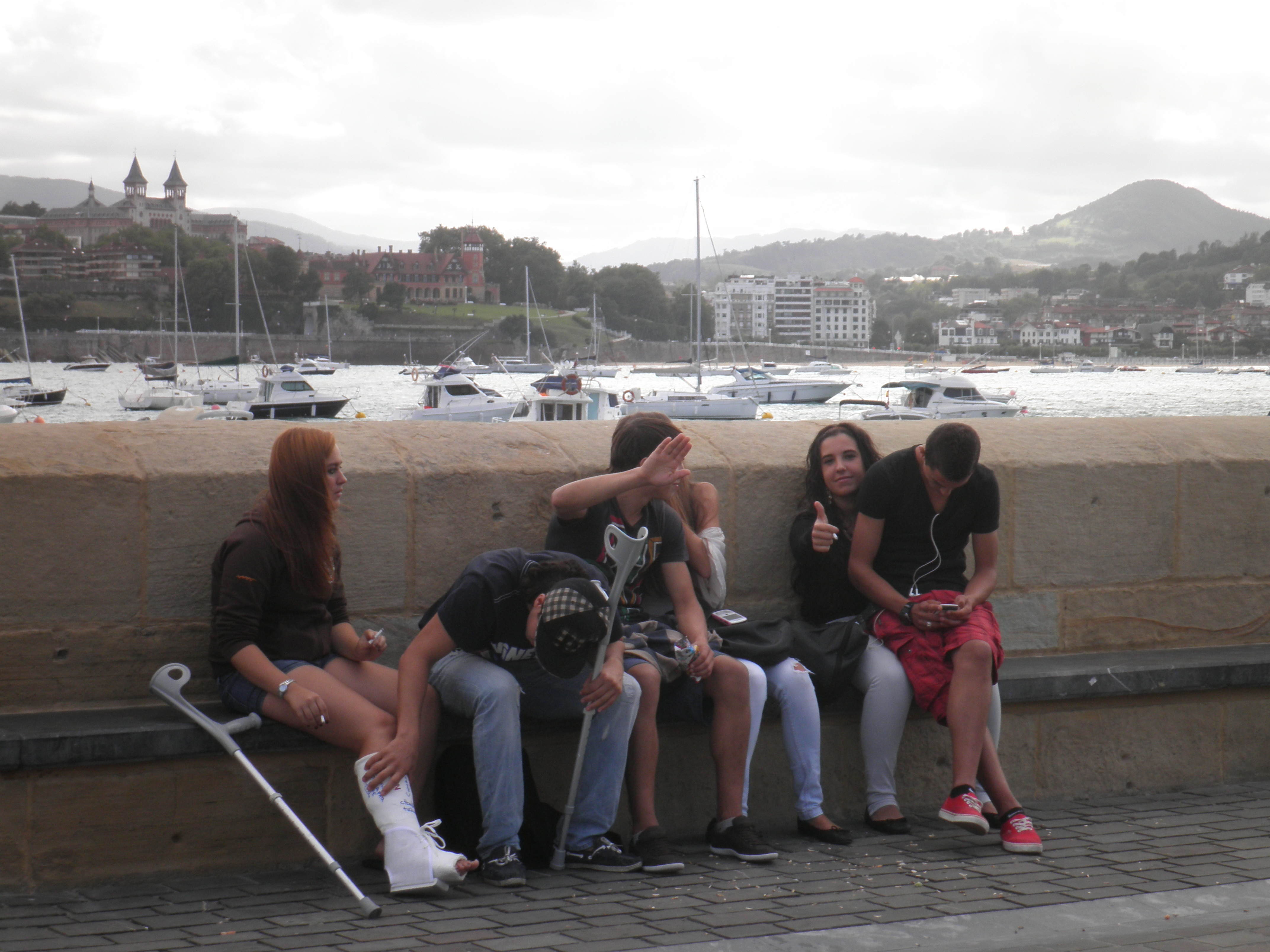 Teenagers in port of Donostia.